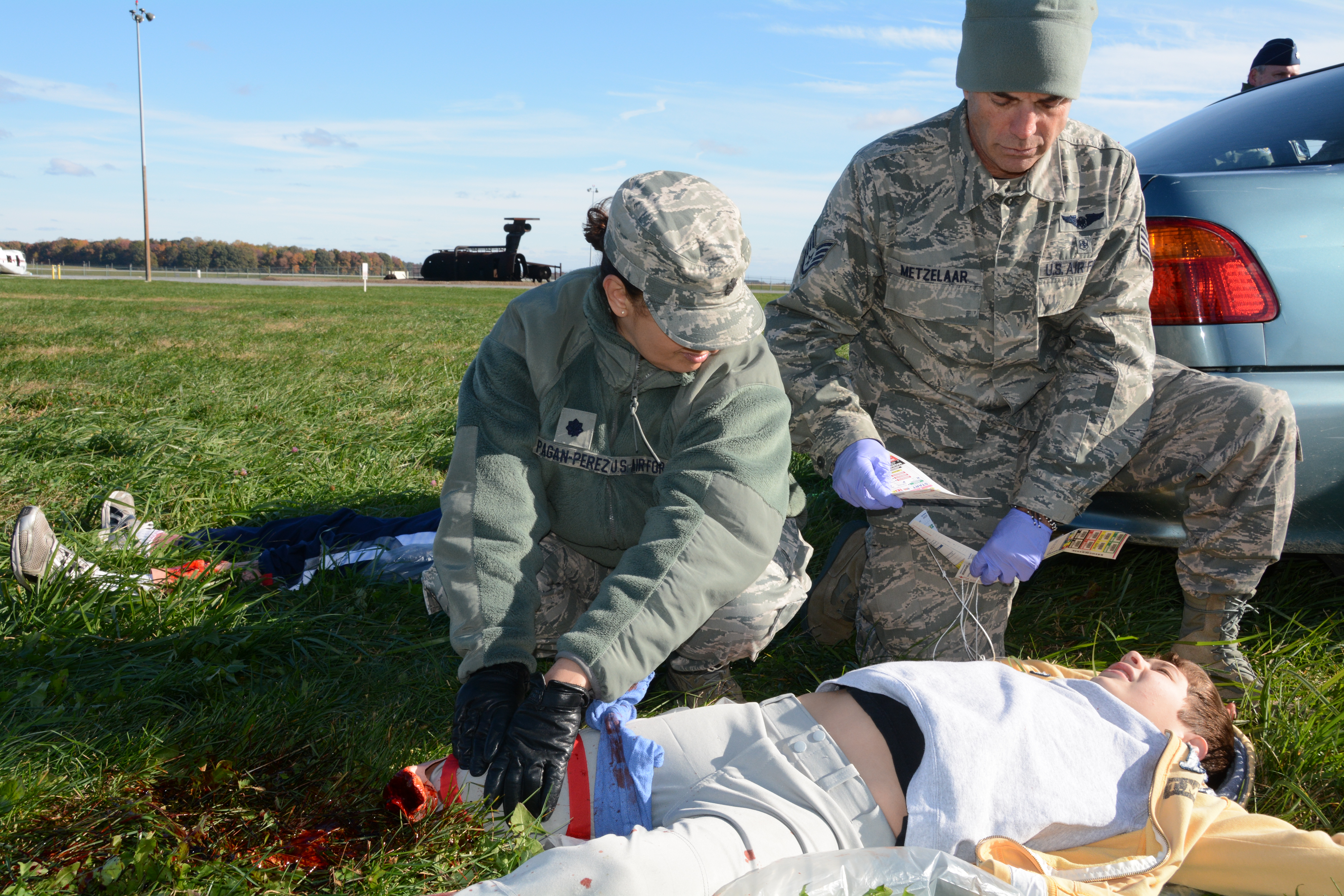 Lt. Col. Mildred Pagan-Perez (left) and Staff Sgt. Mark Metzelaar, 512th Aerospace Medicine Squadron, simulate first response treatment of a Delaware Civil Air Patrol cadet Sam Rundle during a training exercise Nov. 2, 2014, at Dover Air Force Base, Del. Rundle and other CAP cadets played the roles of victims to assist the 512th AMDSwere prepare for real world mass casualty emergencies. (U.S. Air Force photo/Senior Airman Joe Yanik)